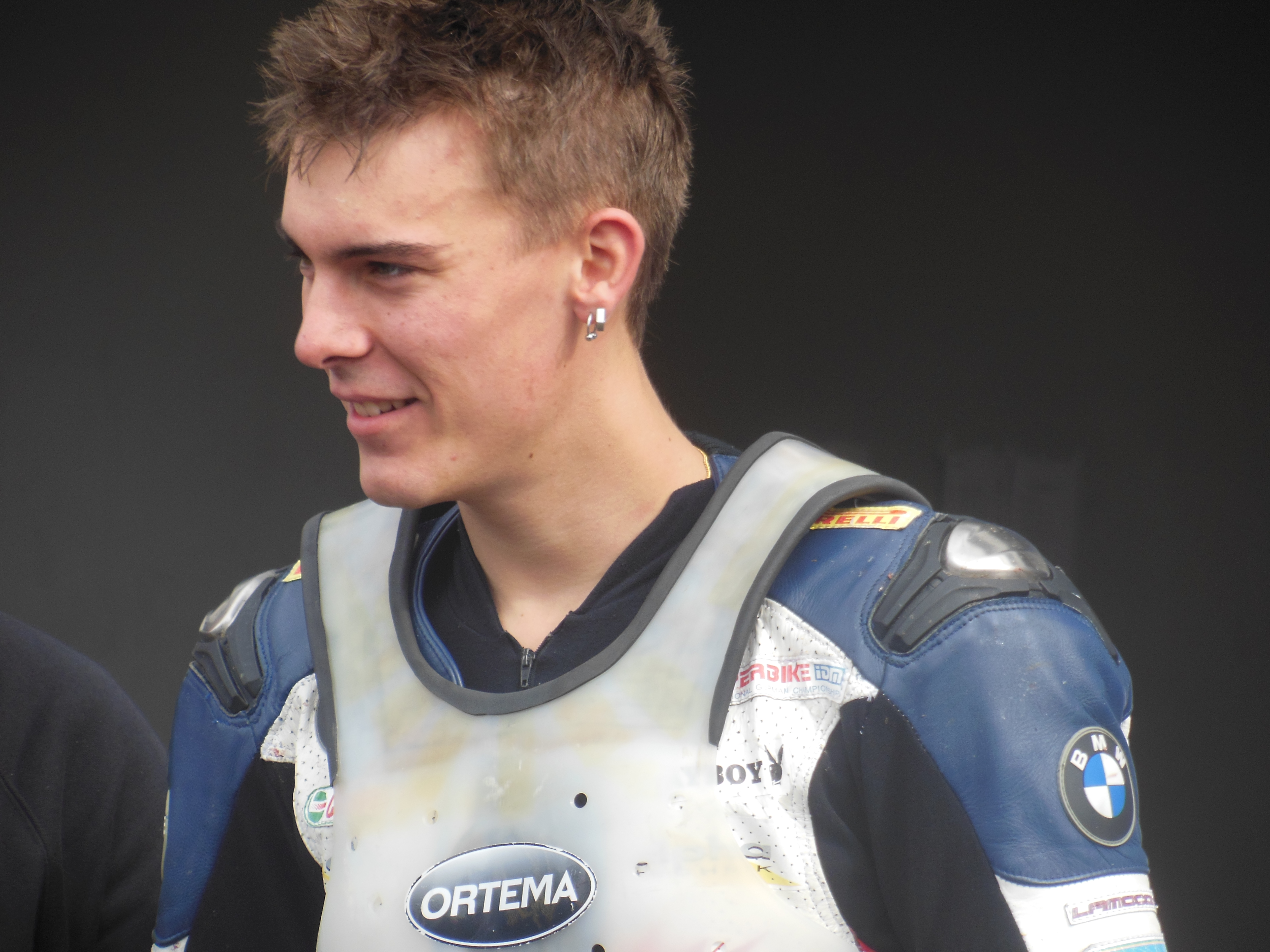 Markus Reiterberger on the Nürburgring